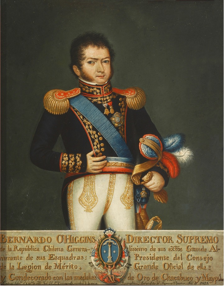 Bernardo O'Higgins, (1778 – 1842) Chilean independence leader